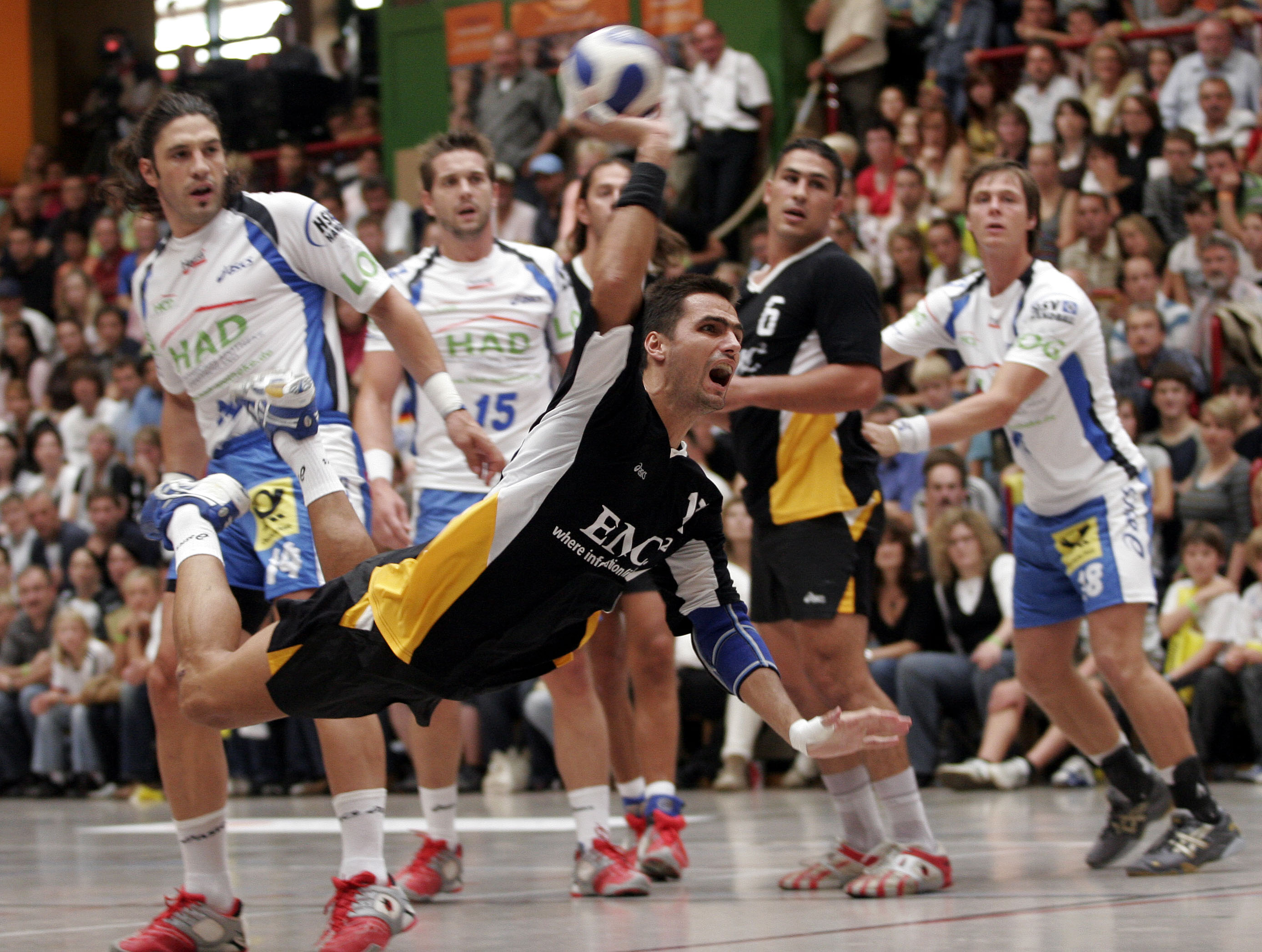 David Juříček, Czech handball player from Montpellier HB, during the Schlecker Cup 2007 in Ehingen (Germany)